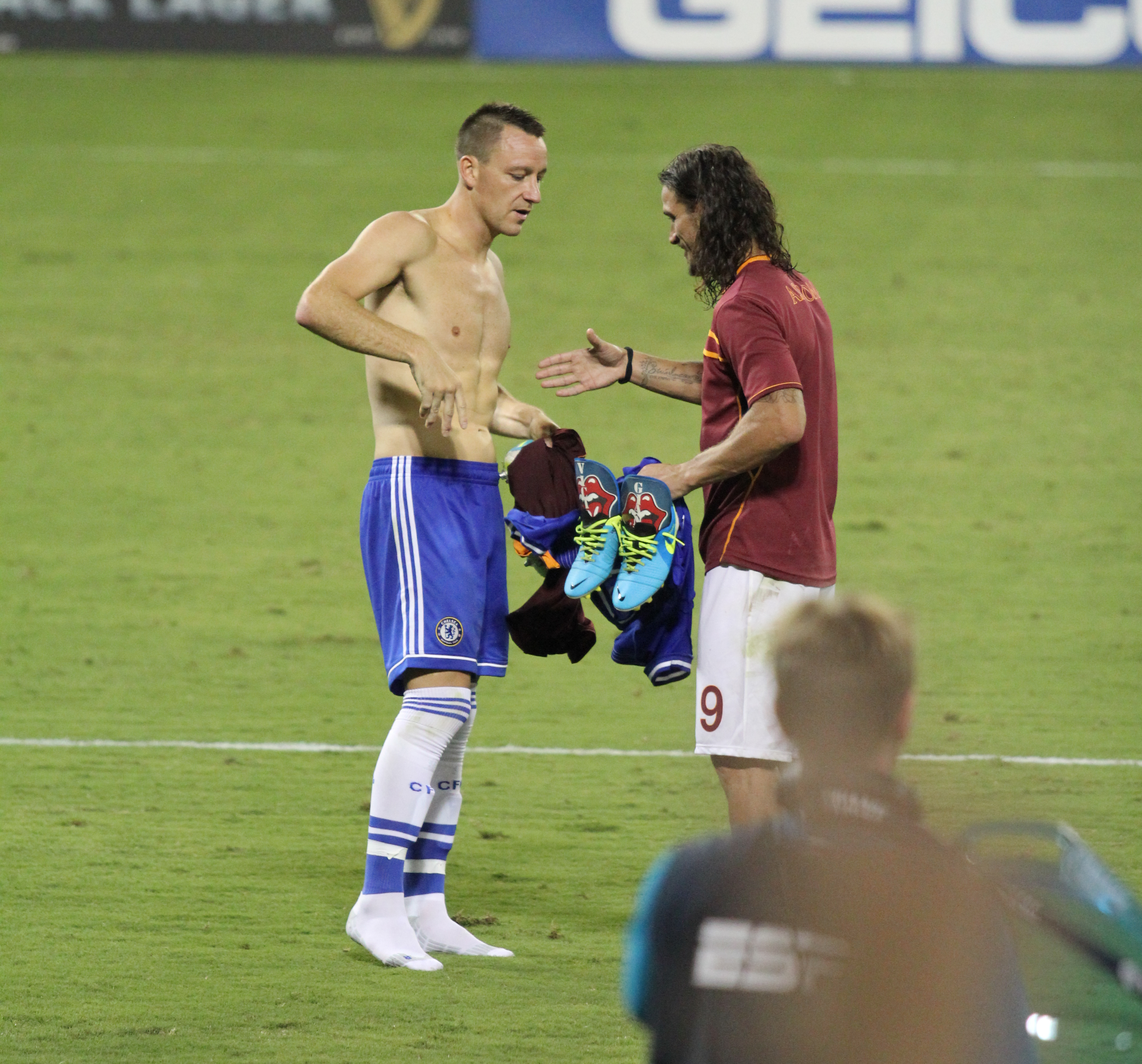 Chelsea vs. AS Roma at RFK Stadium, Washington, DC August 10, 2013